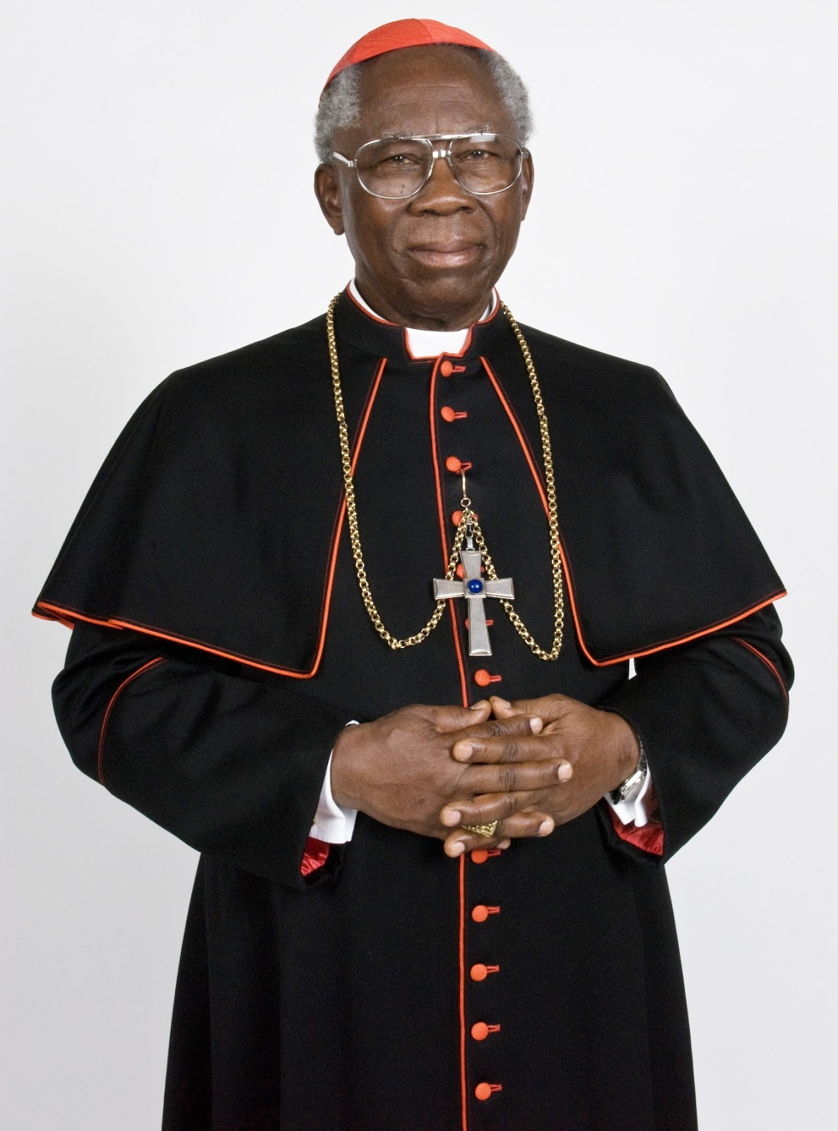 Picture of His Eminence, Francis Arinze, Cardinal-Bishop of Velletri-Segni